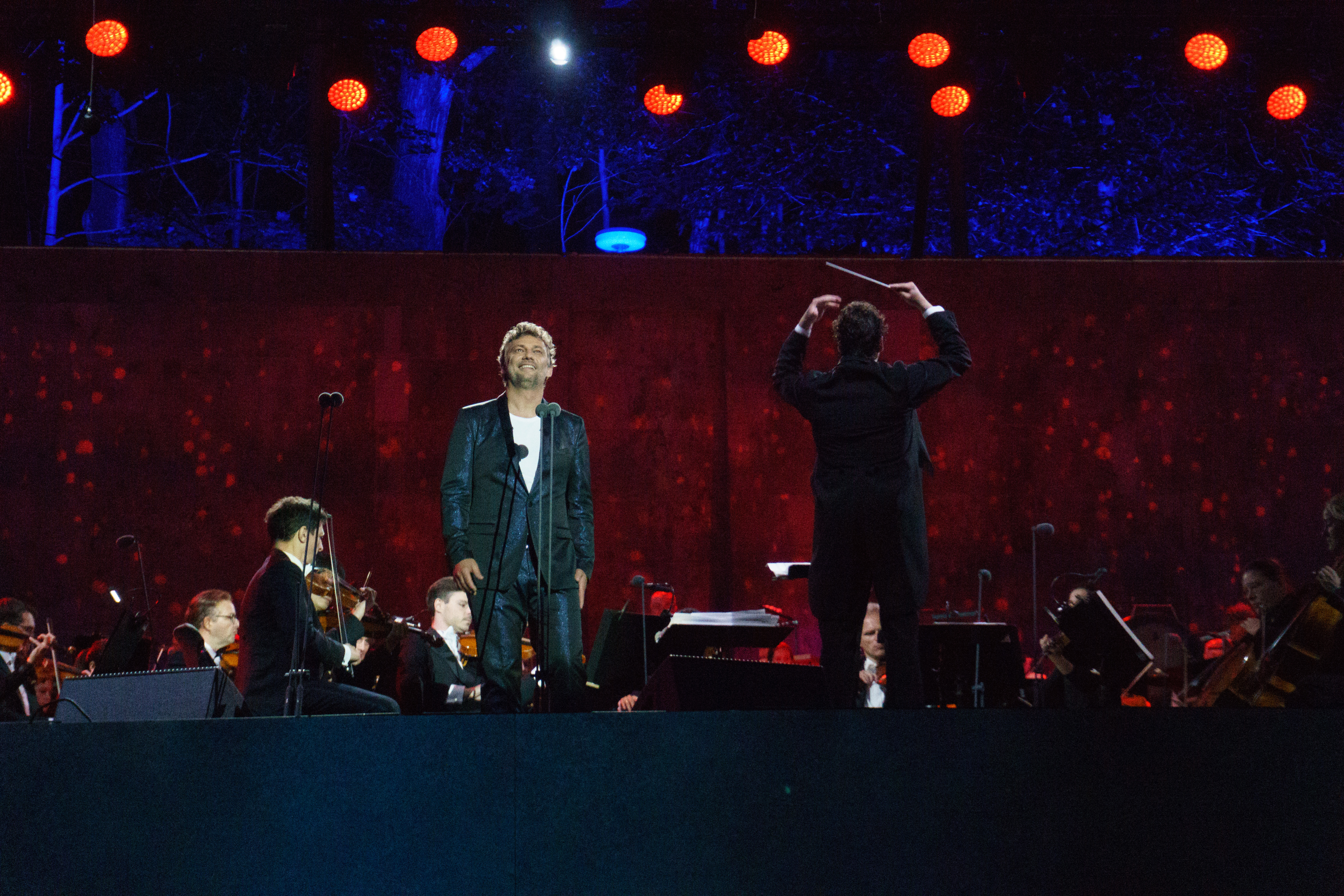 Jonas Kaufmann at the Waldbühne Berlin in the summer of 2018 during his "An Italian Night" concert.